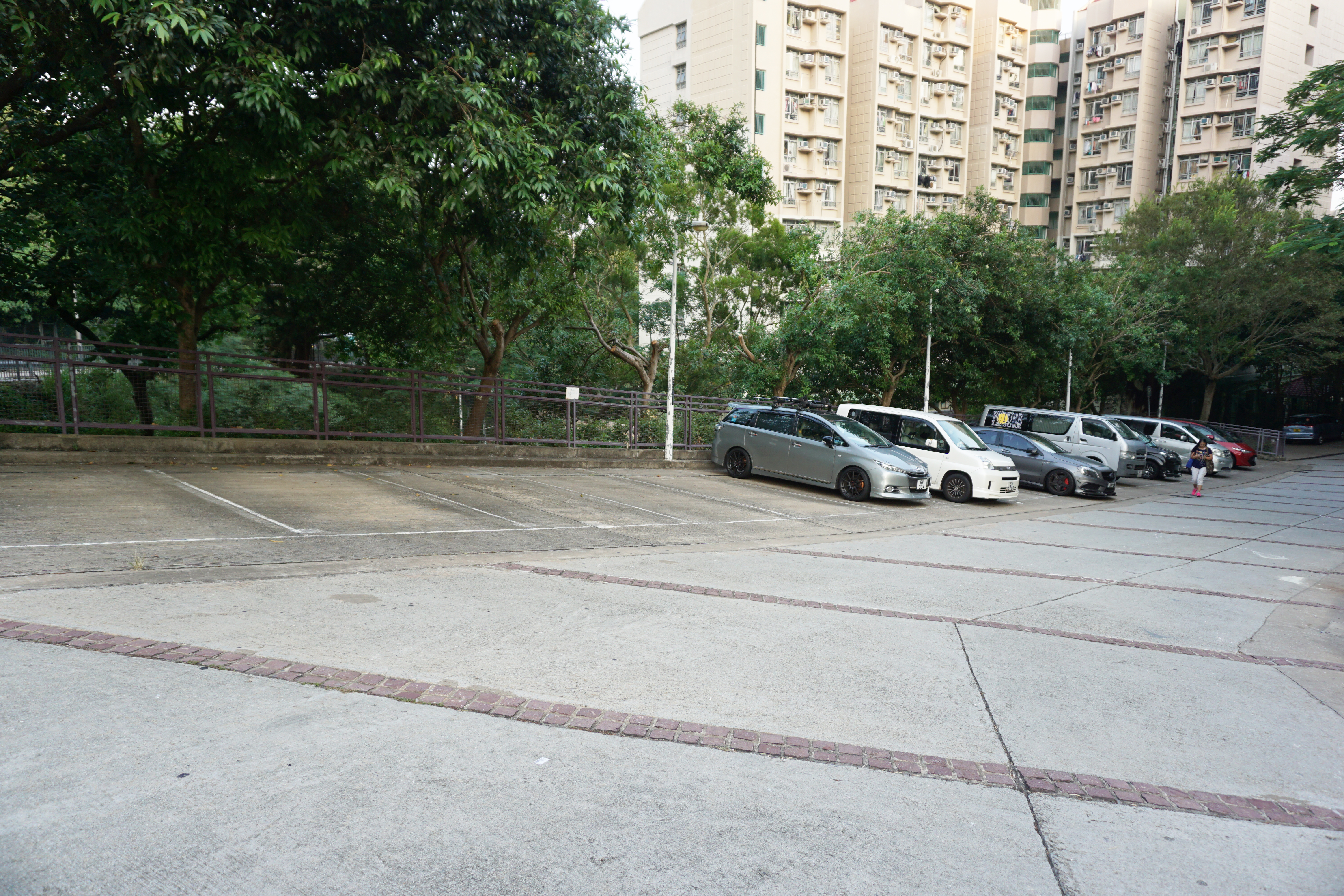 Ma Hang Estate in Stanley, Hong Kong.